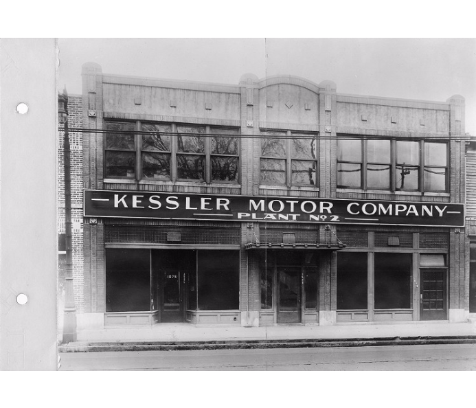 7.5x9.5 black and white photograph of the Kessler-Detroit Motor Company factory, Plant Number Two